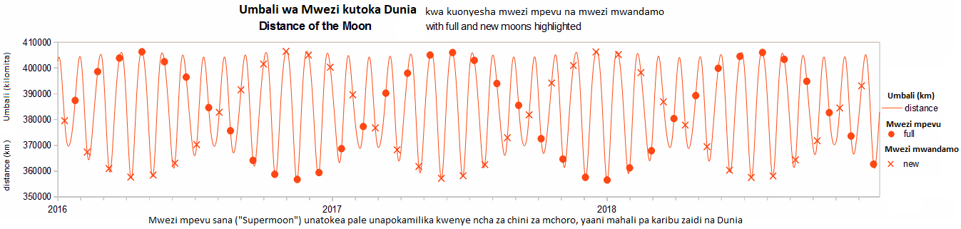 Distance of the moon obtained from JPL Horizons On-Line Ephemeris System, with full and new moons highlighted. Kiswahili: Umbali wa Mwezi na Dunia kwa kipindi cha 2016-2018